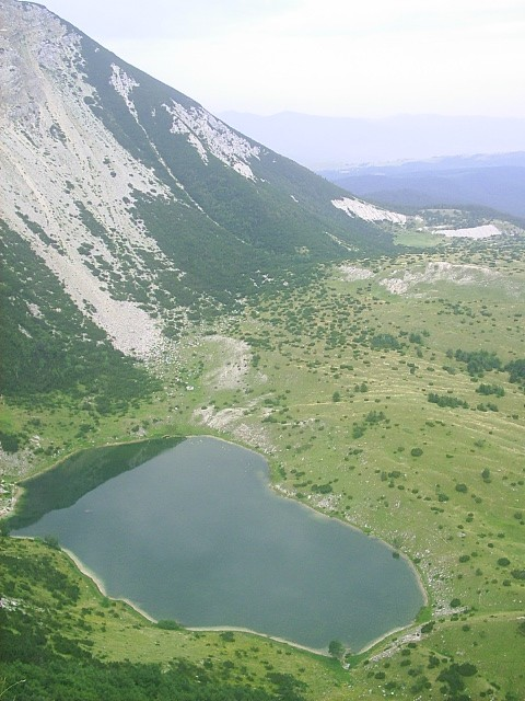 Šatorsko jezero lake in Šator Mountains, Bosnia and Herzegovina